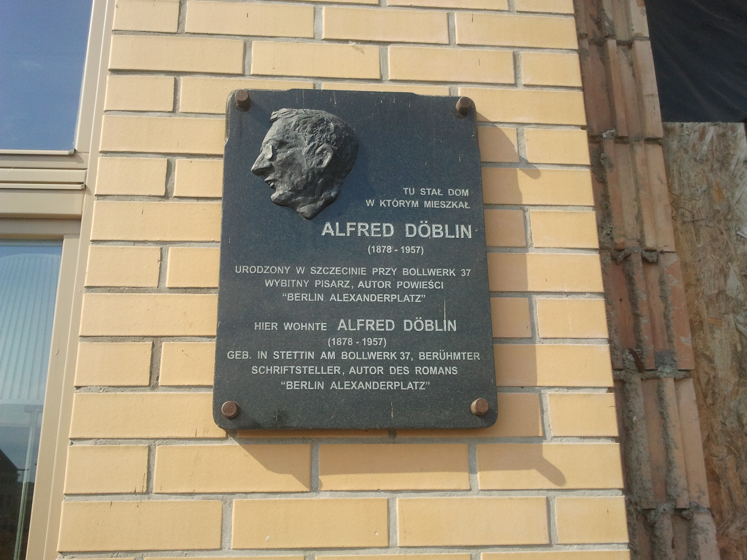 Memorial plate at Alfred Döblin's birth place in Szczecin, Poland.